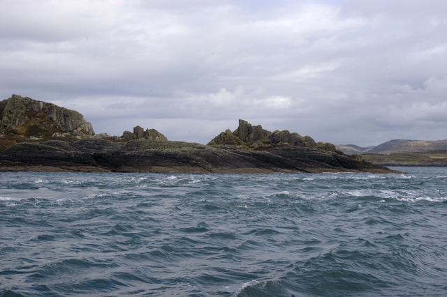 Craignish Point